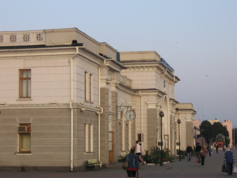 Taras Shevchenko railway station in Smila, Ukraine